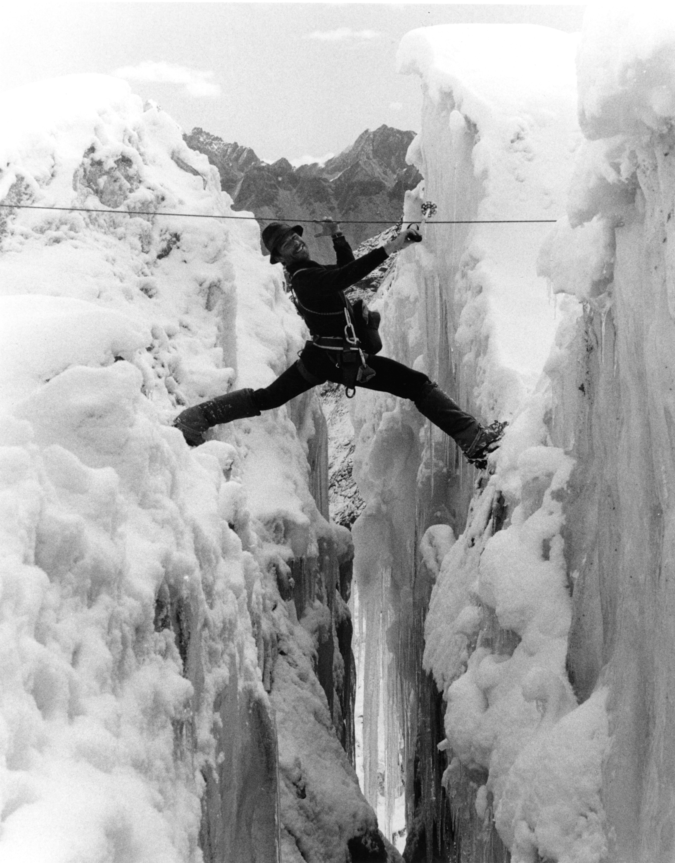 Luke Hughes on Xixabangma 1987